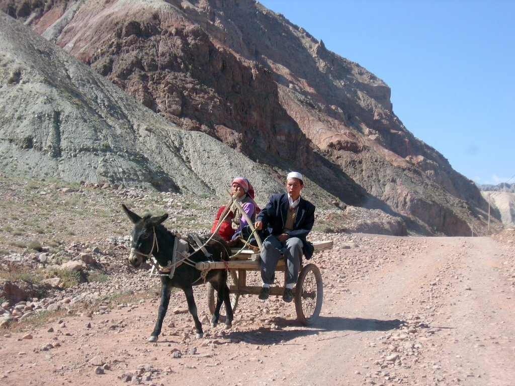 Kirguiz people in Oytak, close to Karakoram Highway in Xinjiang province (China).